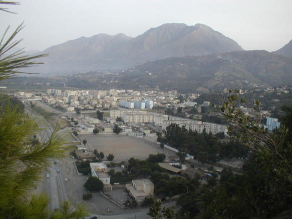 Aokas, city in the north est of Béjaïa, in Kabylie (Algeria).